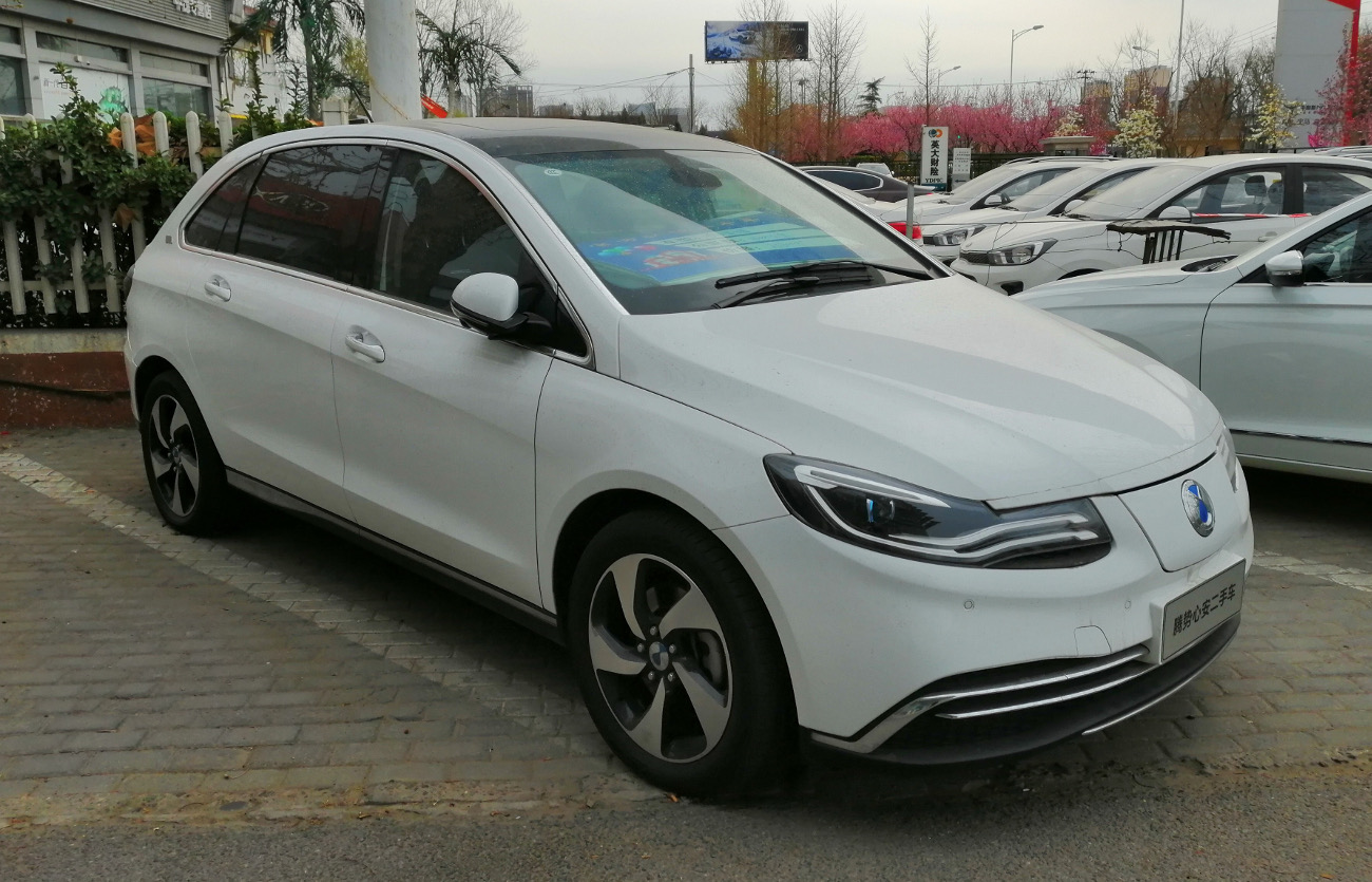 Denza 500 photographed in Beijing, China.